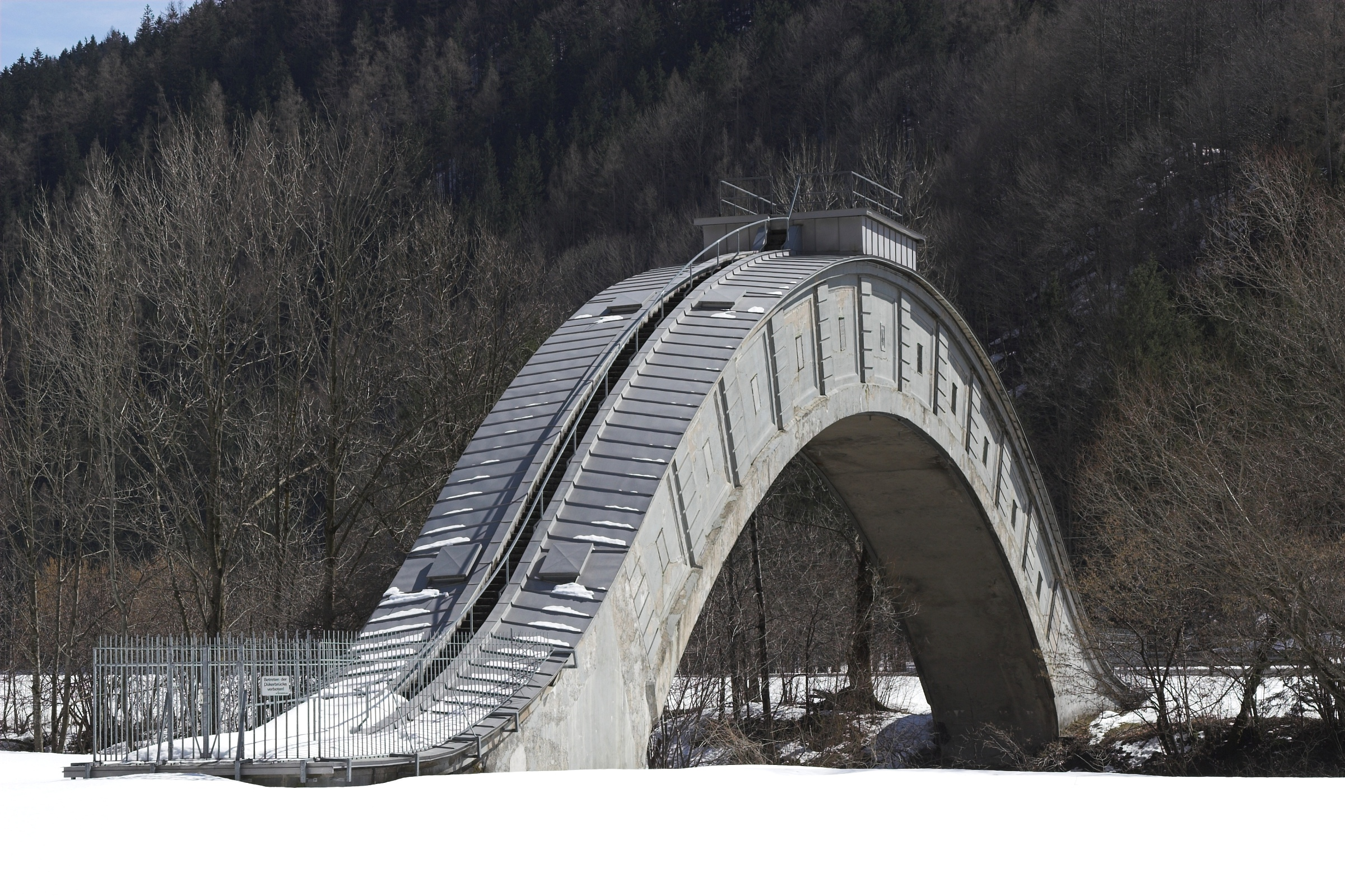 Pipeline bridge over river Ybbs of the high pressure water pipeline to Opponitz power station, near St. Georgen am Reith.